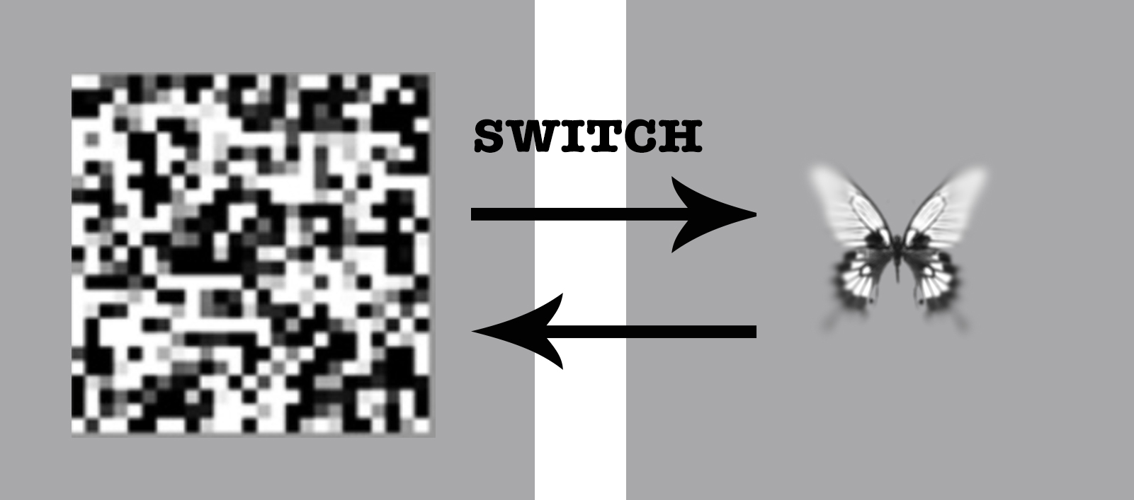 Image adapted from experiment done by Arnold et al., 2008